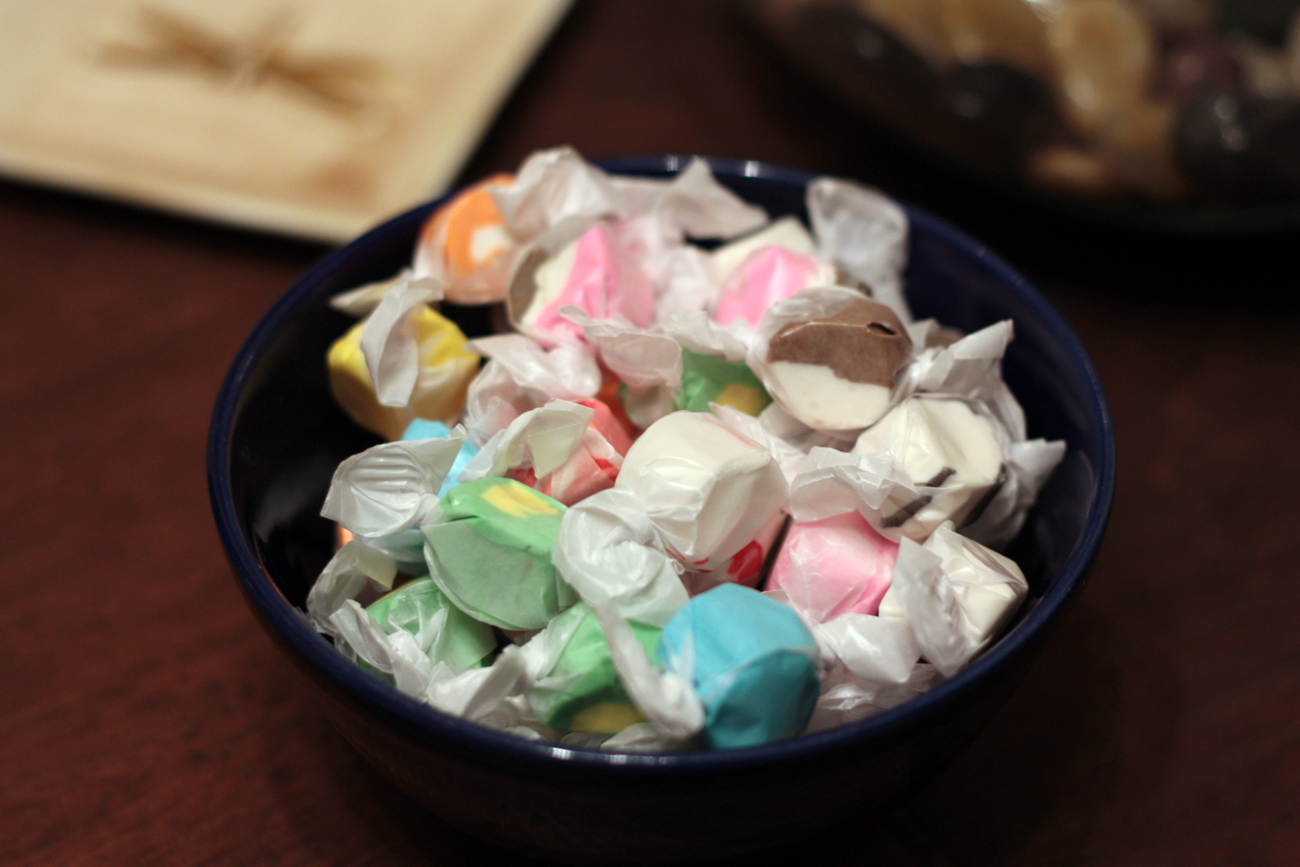 A bowl of colorful assorted saltwater taffies waits enticingly on the entryway table. Since returning from the coast, we've been steadily making our way through the bowl.